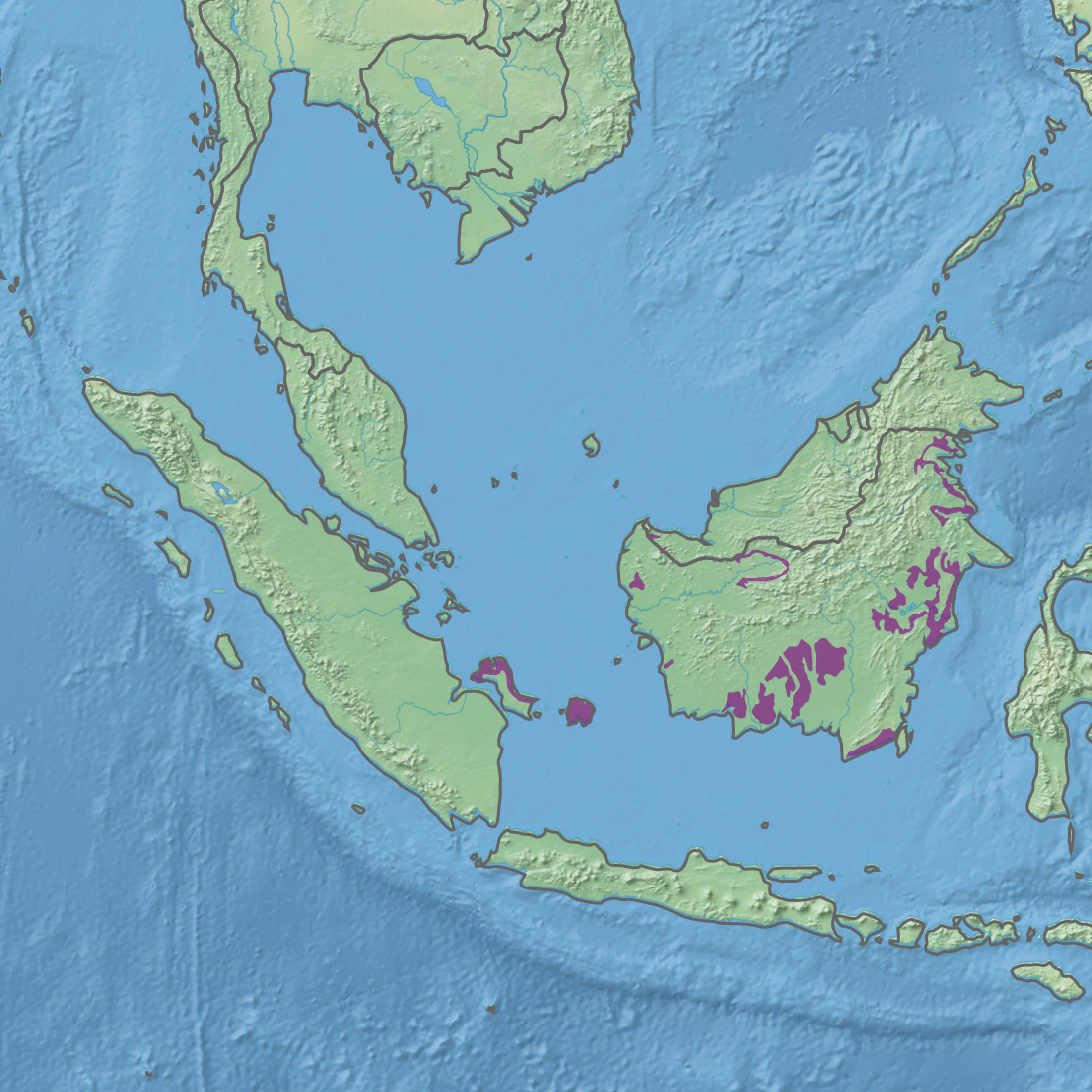 Ecoregion IM0161 - Sundaland heath forests (in purple)